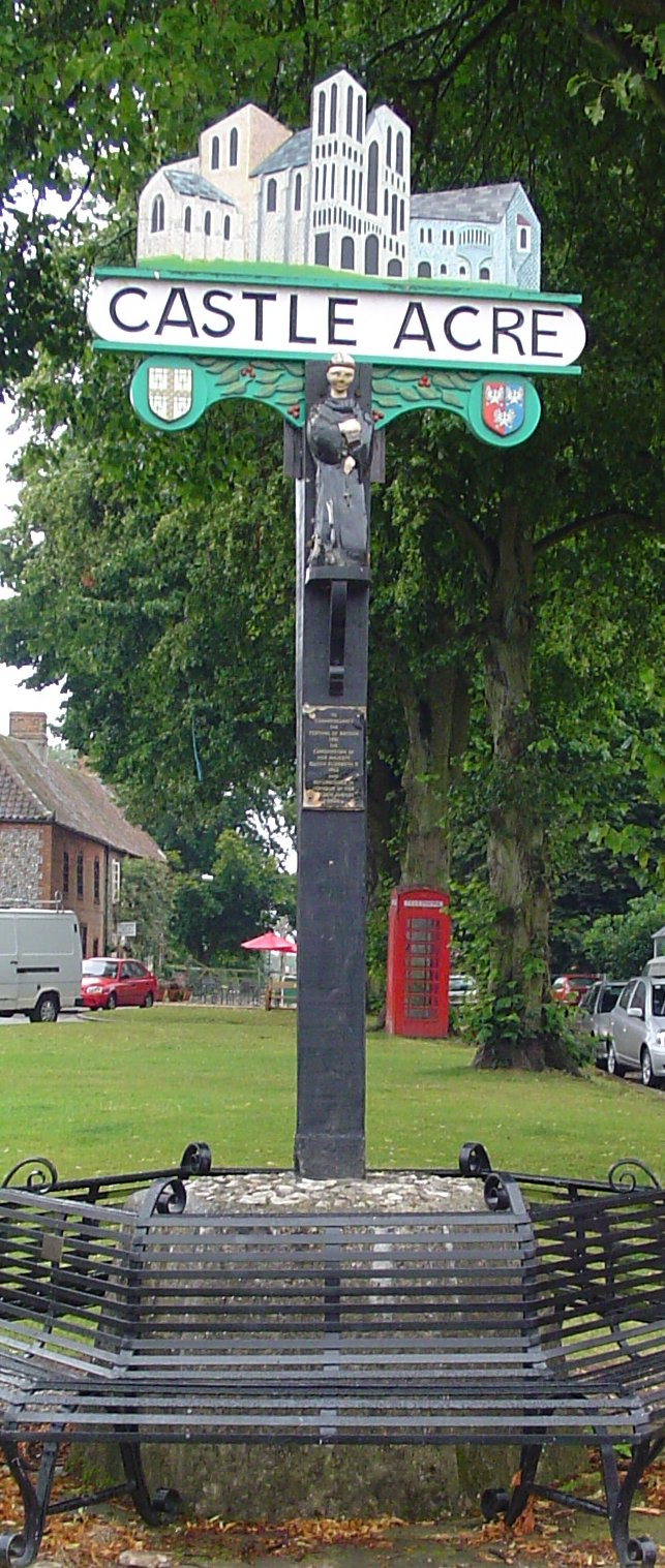 Signpost in Castle Acre